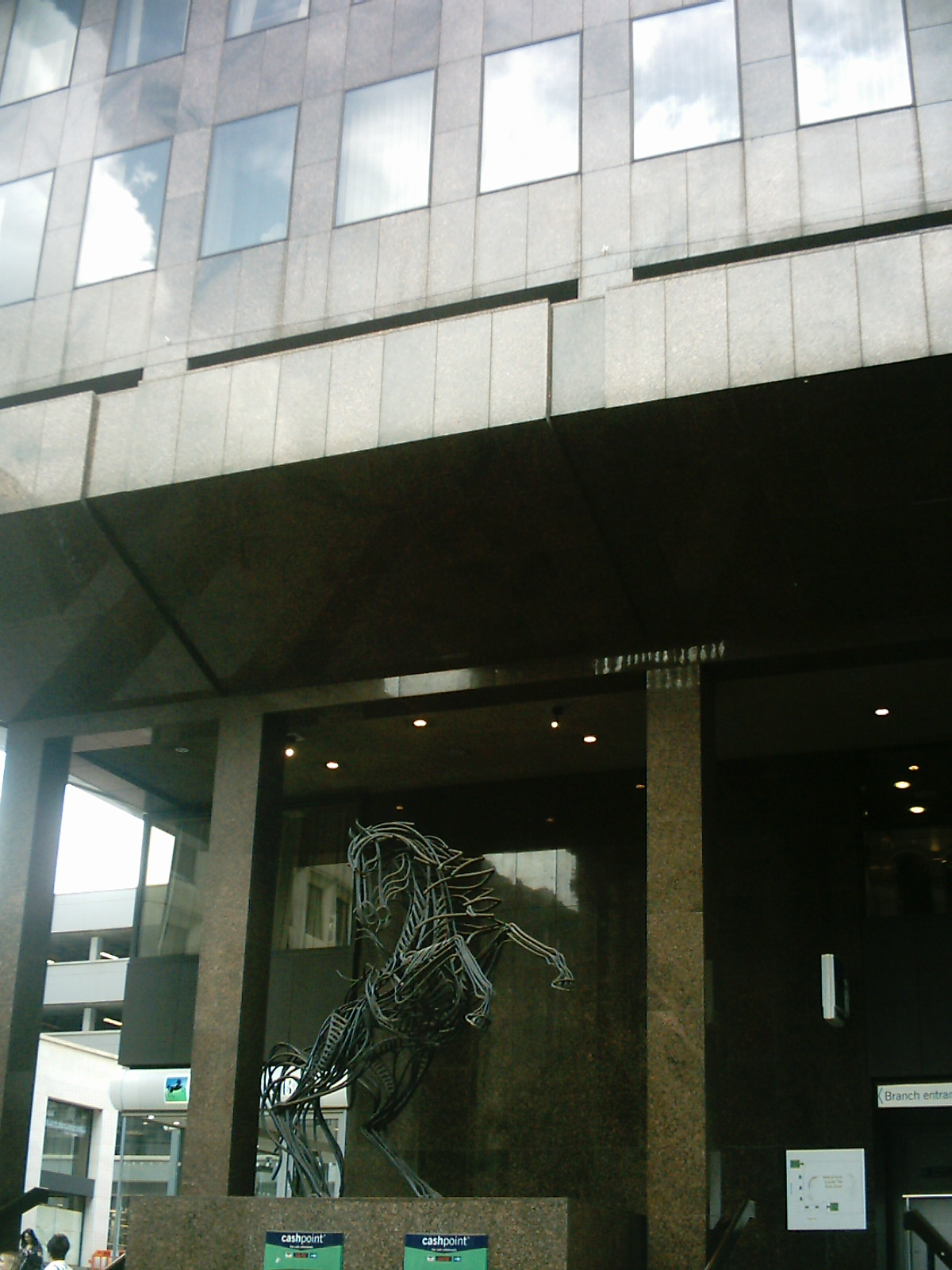 Lloyds TSB regional offices on Park Row in Leeds.